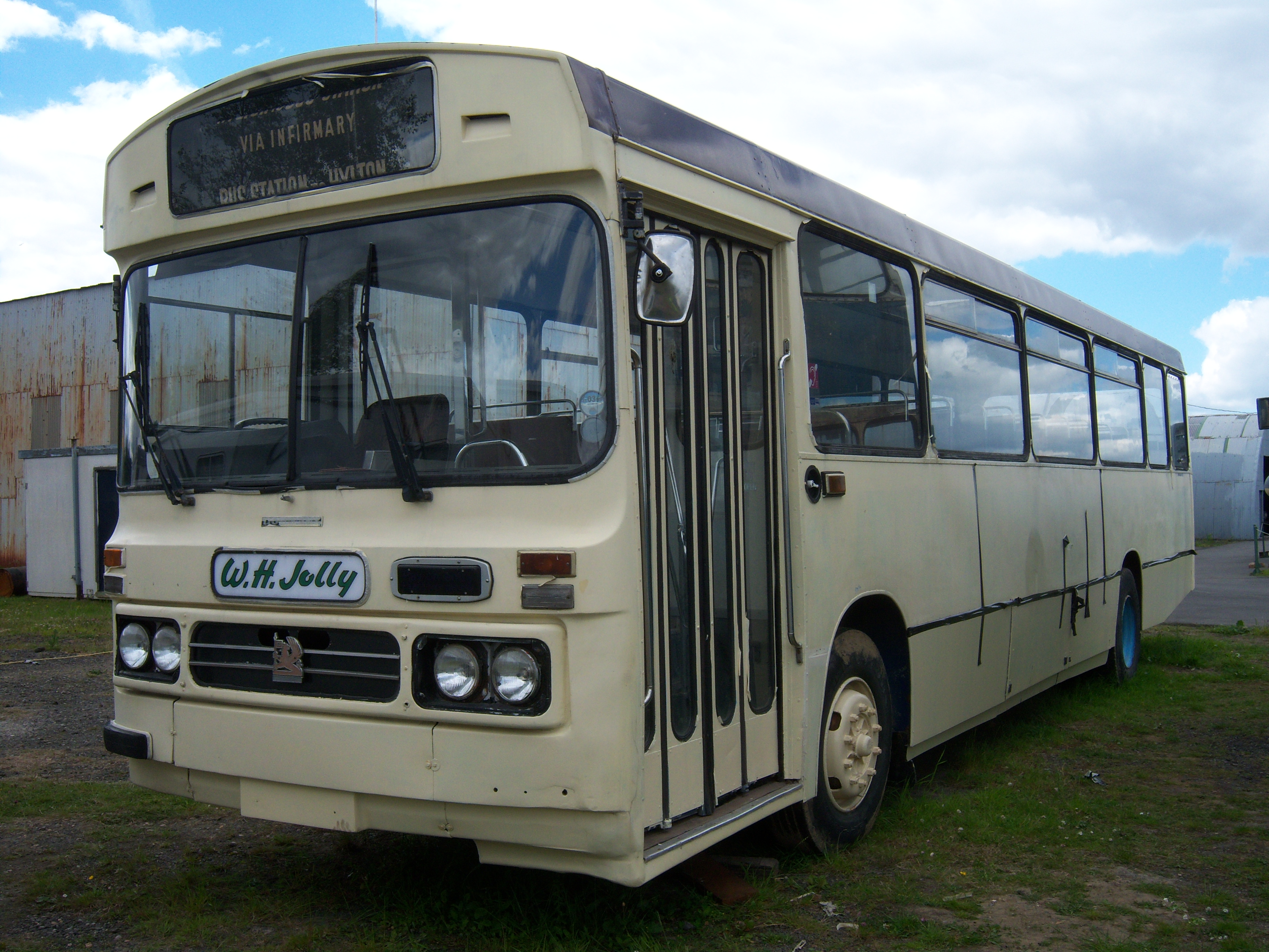 Seen at the NELSAM site in Sunderland.